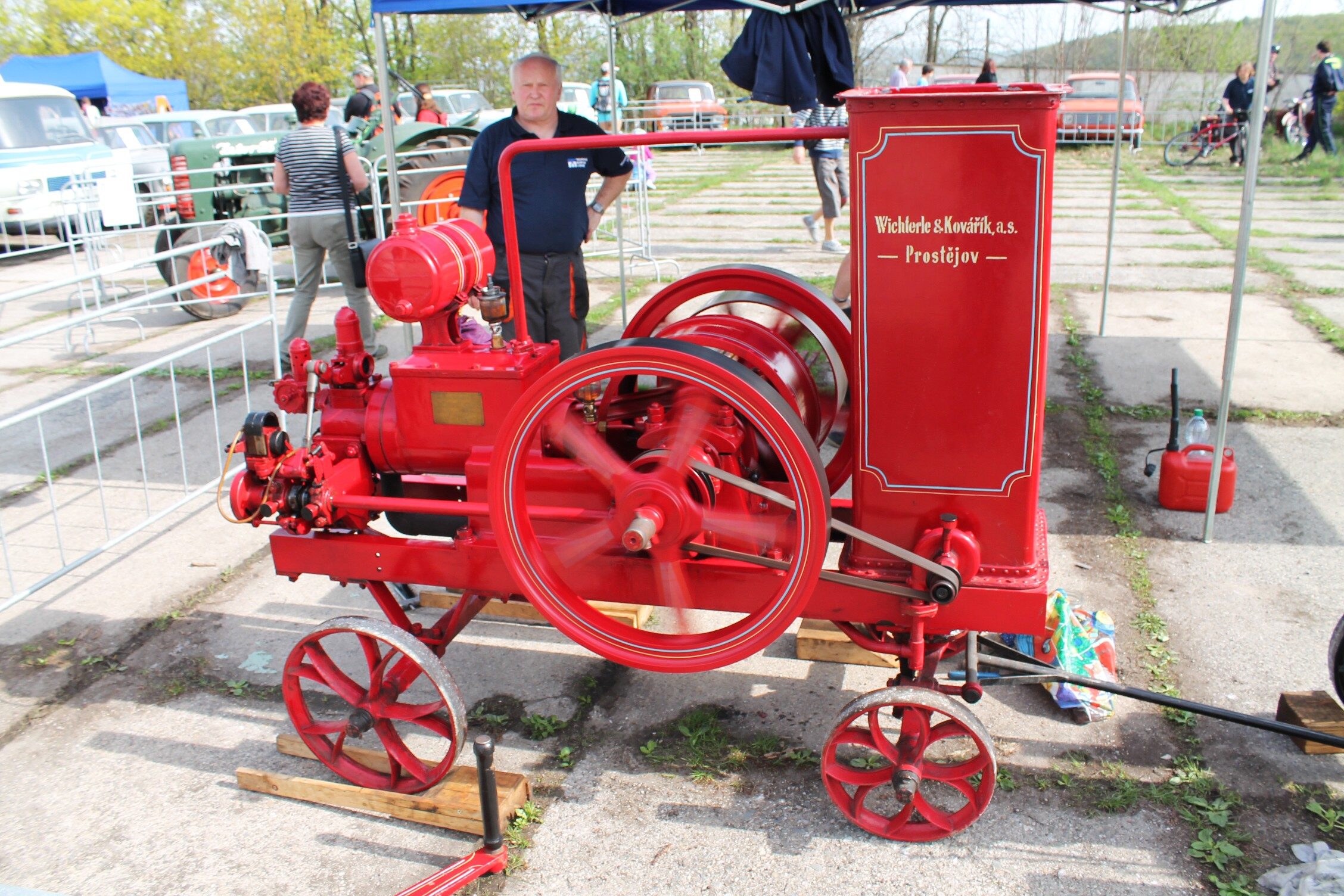 Wikov engine, depository of Technical Museum in Brno, Czech Republic